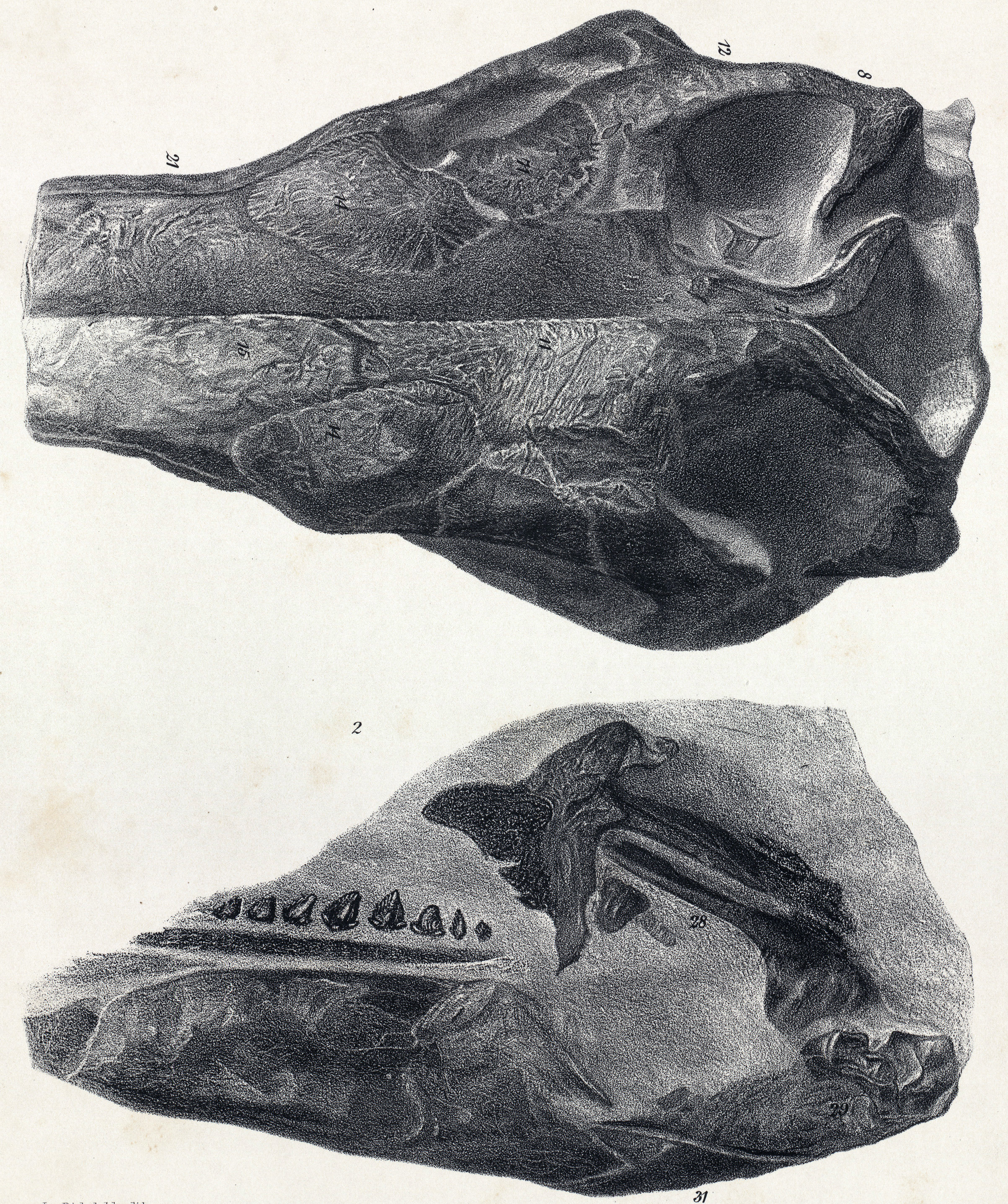 Scelidosaurus Harrisonii. Fig. 1. Upper view of part of skull; natural size. Fig. 2. Part of the mutilated side of the same skull; ib.